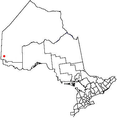 Map of Ontario, Canada, showing city of Kenora.